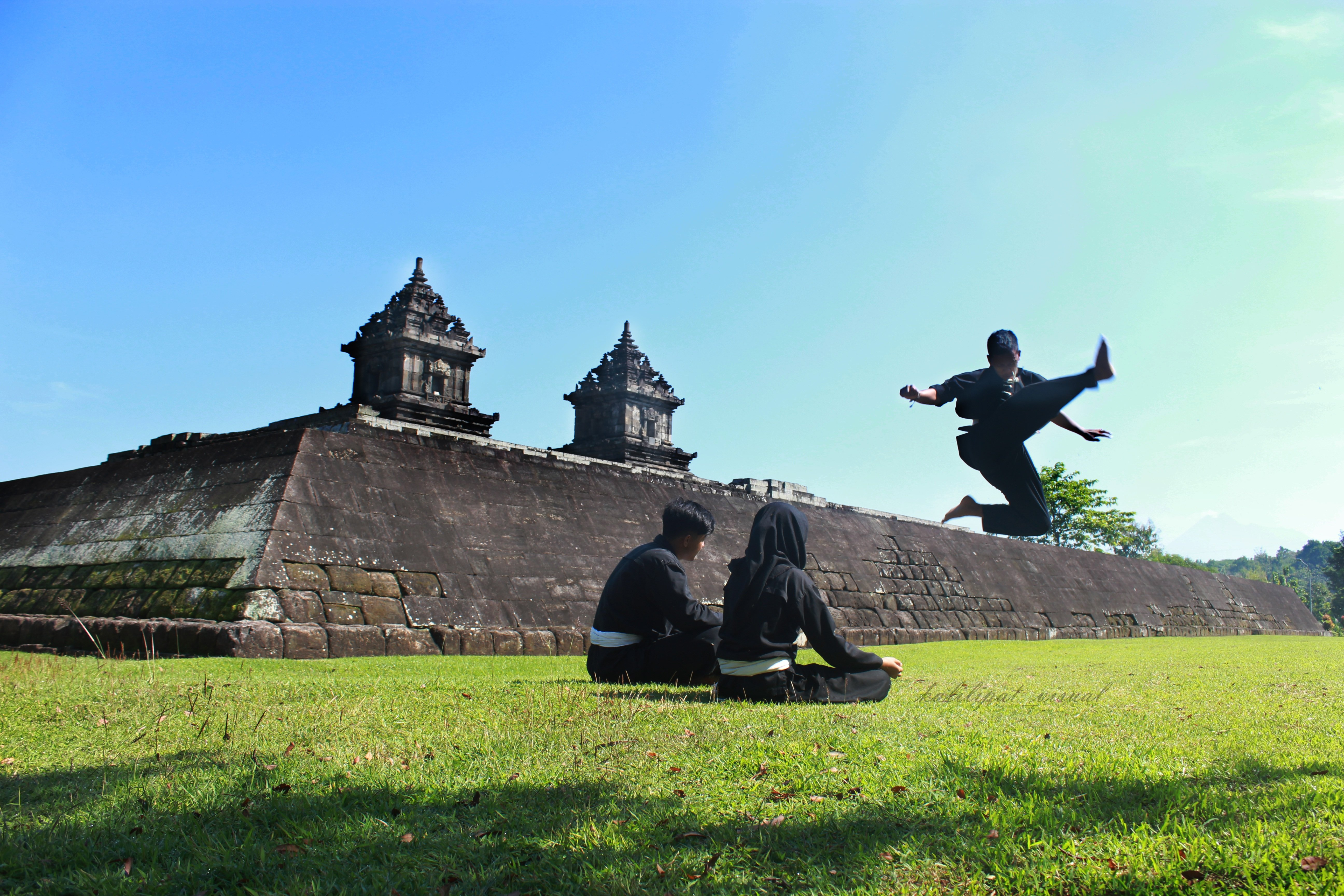 Pencak silat by Persaudaraan Setia Hati Terate (PSHT) at Candi Barong, Sleman, Yogyakarta, Indonesia.